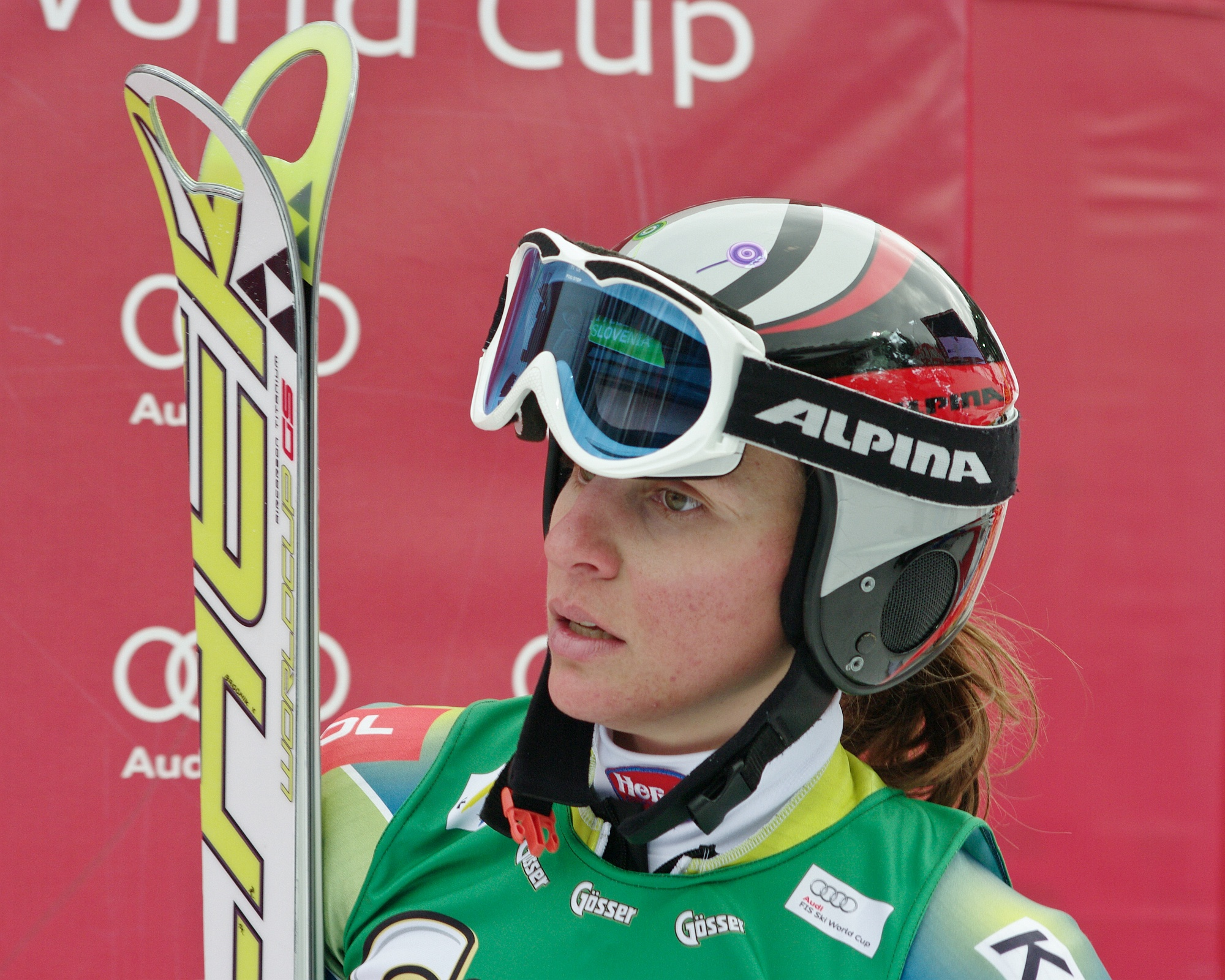 Slovenian alpine skier Vanja Brodnik after the first run of the Giant Slalom in Semmering (Austria) on 28 December 2010.